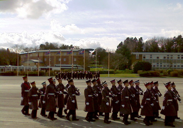 Helles Barracks Parade Ground Helles Barracks form a small part of Catterick Army Garrison.